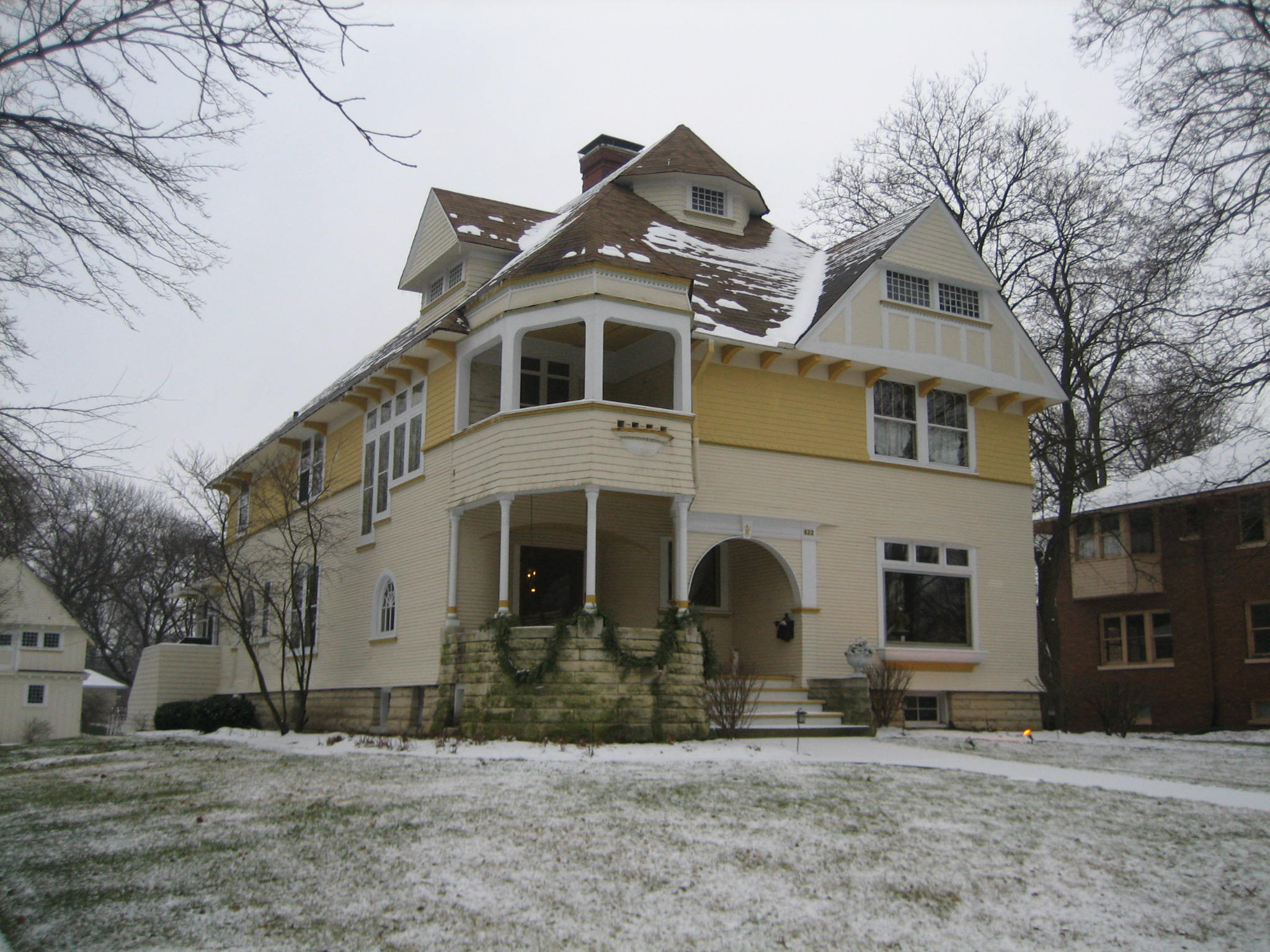 1890 J.H. Rogers Home, Sycamore, Illinois. 432 W. Somonauk St. National Register of Historic Places as part of the Sycamore Historic District.